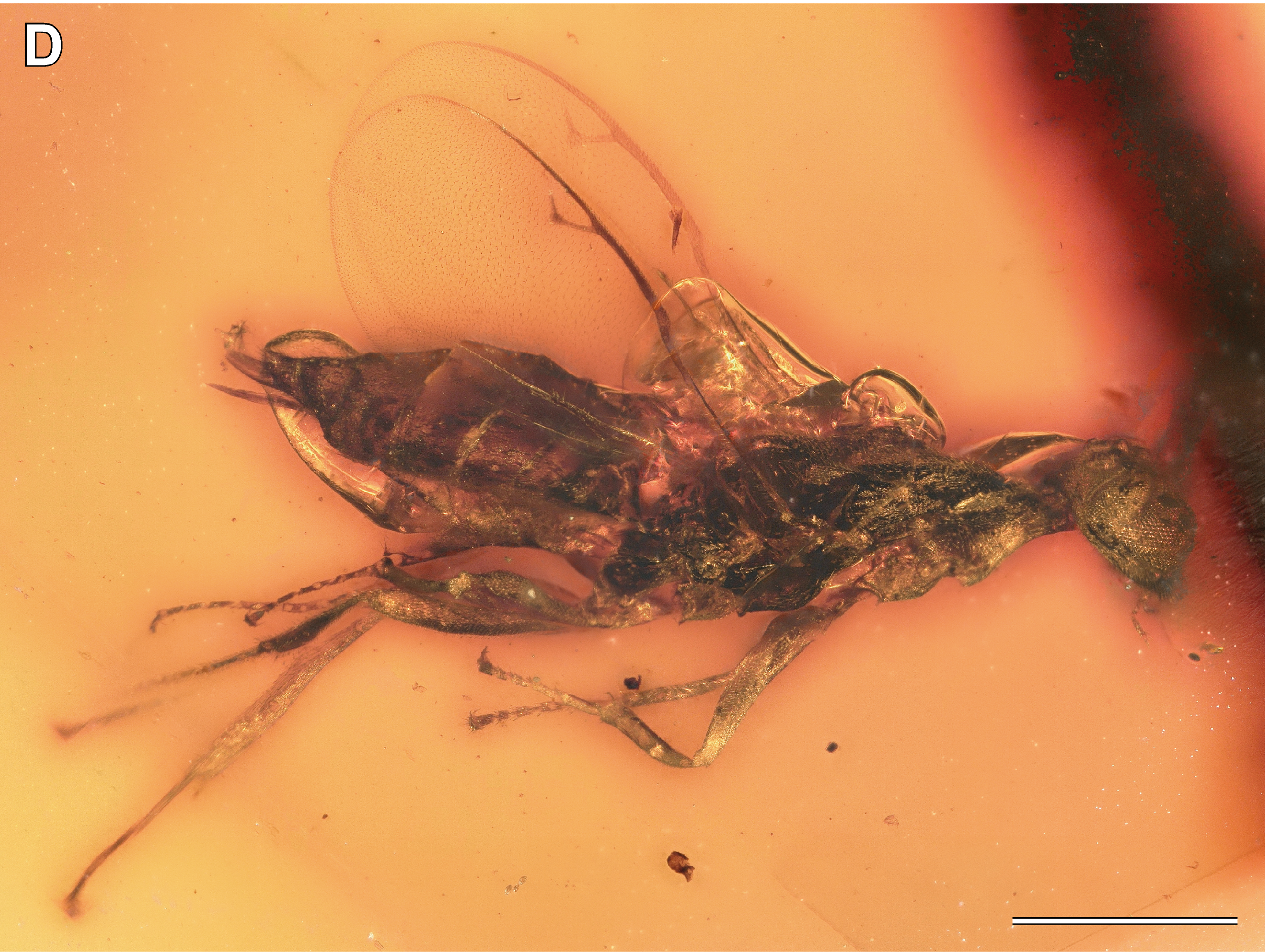 Specimens of Burminata caputaeria and Glabiala barbata parasitic wasps from the Burmese Amber